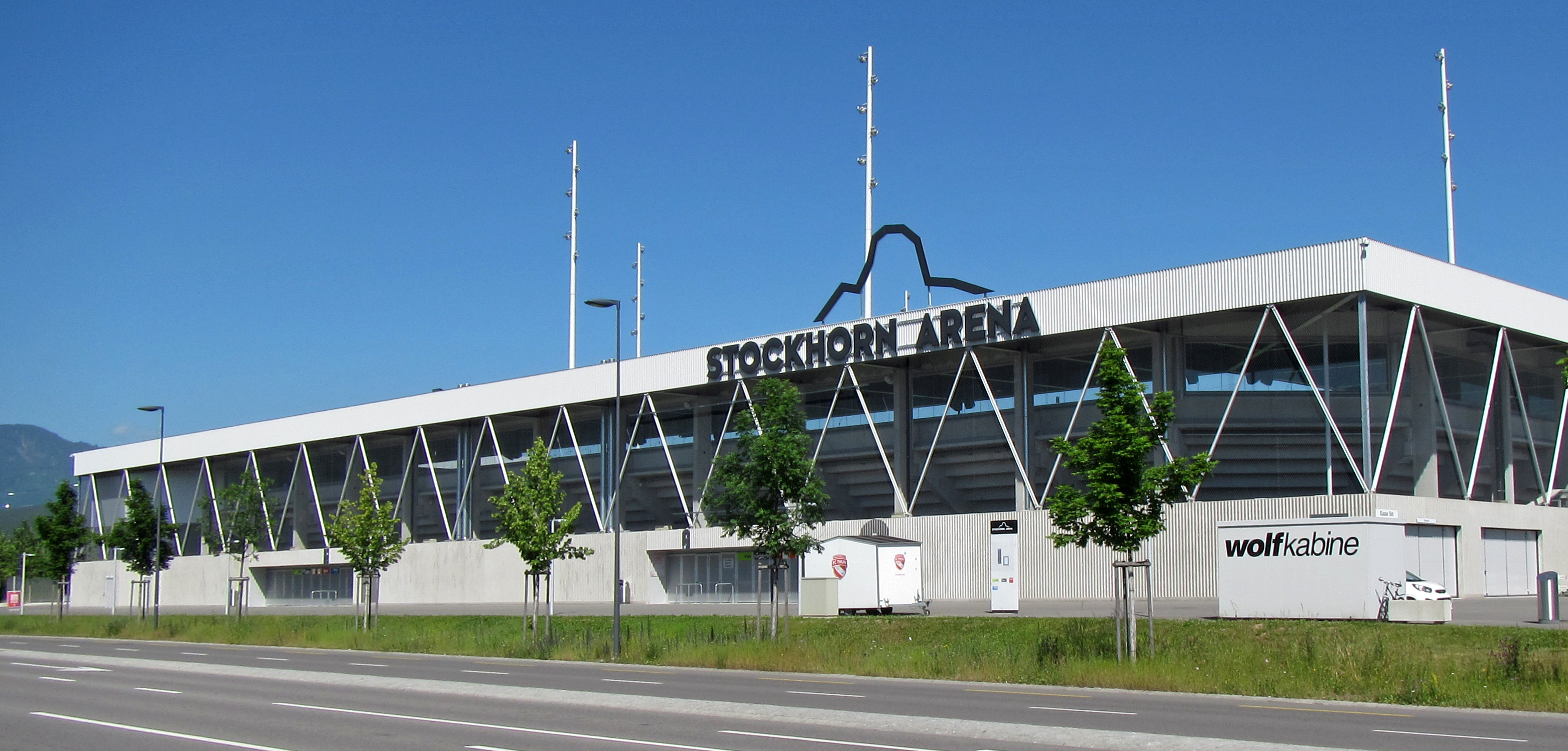 External view of the Stockhorn Arena (home of FC Thun).